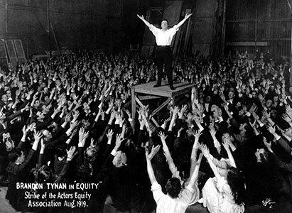 Brandon Tynan arms raised during a performance in support of the Actors' Equity Association strike of 1919. The performance was done in August 1919 at the Lexington Avenue Opera House and was used to raise funds for the Actors' Equity strike. In the picture, actor Brandon Tynan gives an adaption of Marc Antony's address to Roman citizens at the funeral of Julius Caesar: "Friends, Brothers, Sisters, Countrymen, lend me your ears. I come not to bury Equity but to praise him. The evil that men do lives after them. The good is oft interred with their bones. Not so with Equity.... "Behind us we have more than five million men and women. The ship of hope--the American Federation of Labor. [The mob cheers.] "Now, dear public, our great public. You have always stood for justice. You have always been just to us and we have always tried to be just to you. Will you stand up and show that you are with us, and join us in our cry of EQUITY! EQUITY!!, EQUITY!!!" The crowded house sprang to its feet as the actors onstage threw back their heads, stretched out their arms, and thrilled to their cry of faith, with the audience joining in. (New York Call, August, 1919)[1]